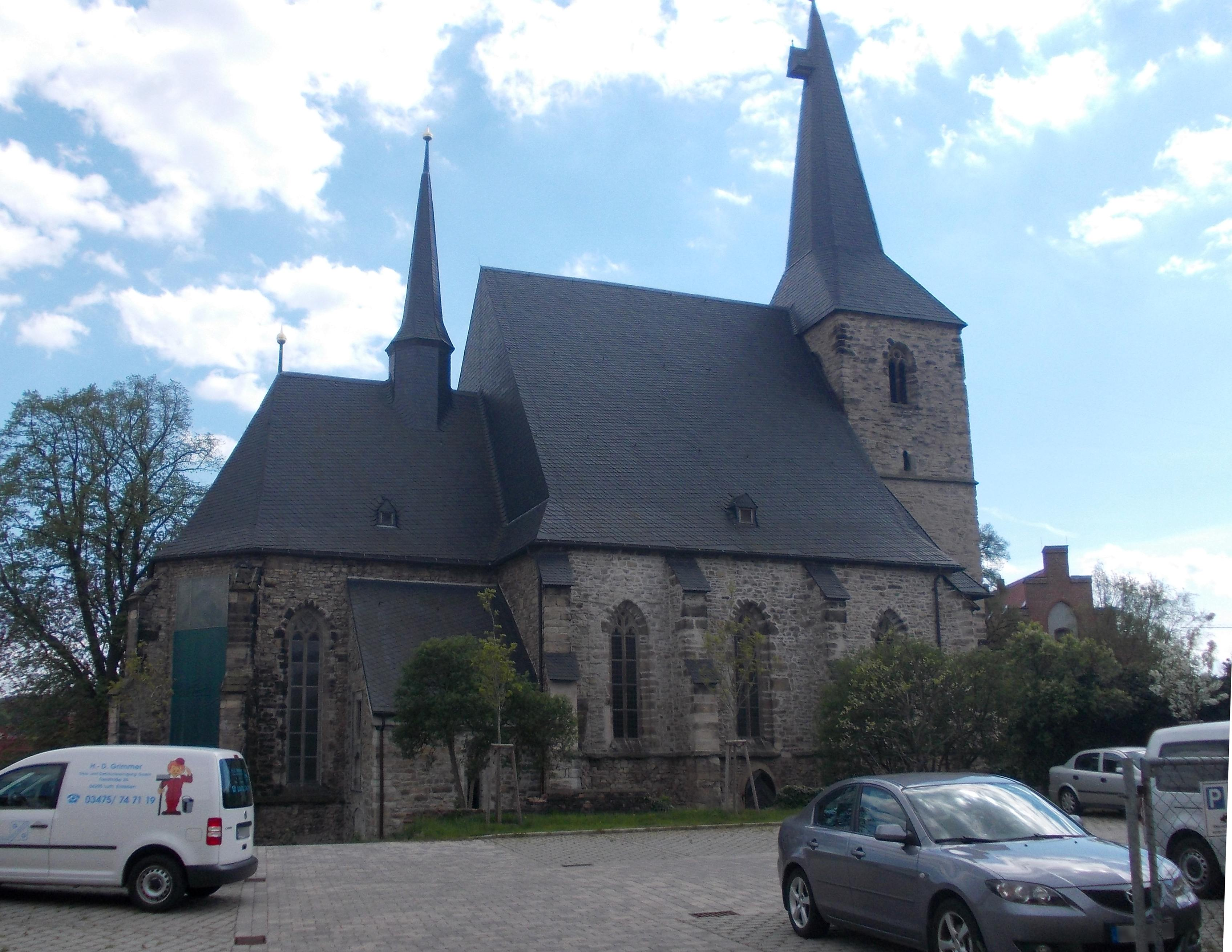 St. Nicholas' Church in Eisleben (Mansfeld-Südharz district, Saxony-Anhalt)